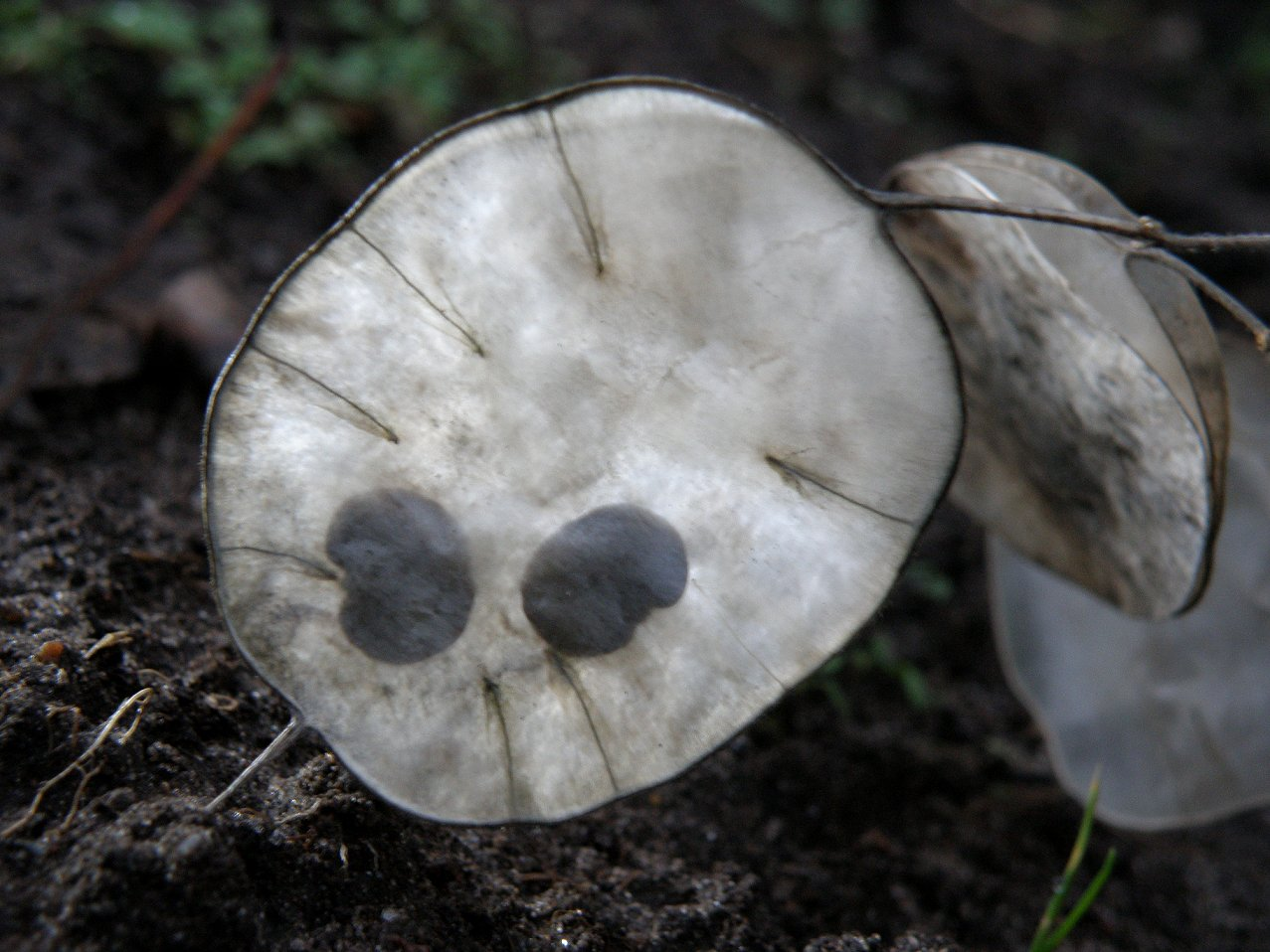 Lunaria annua